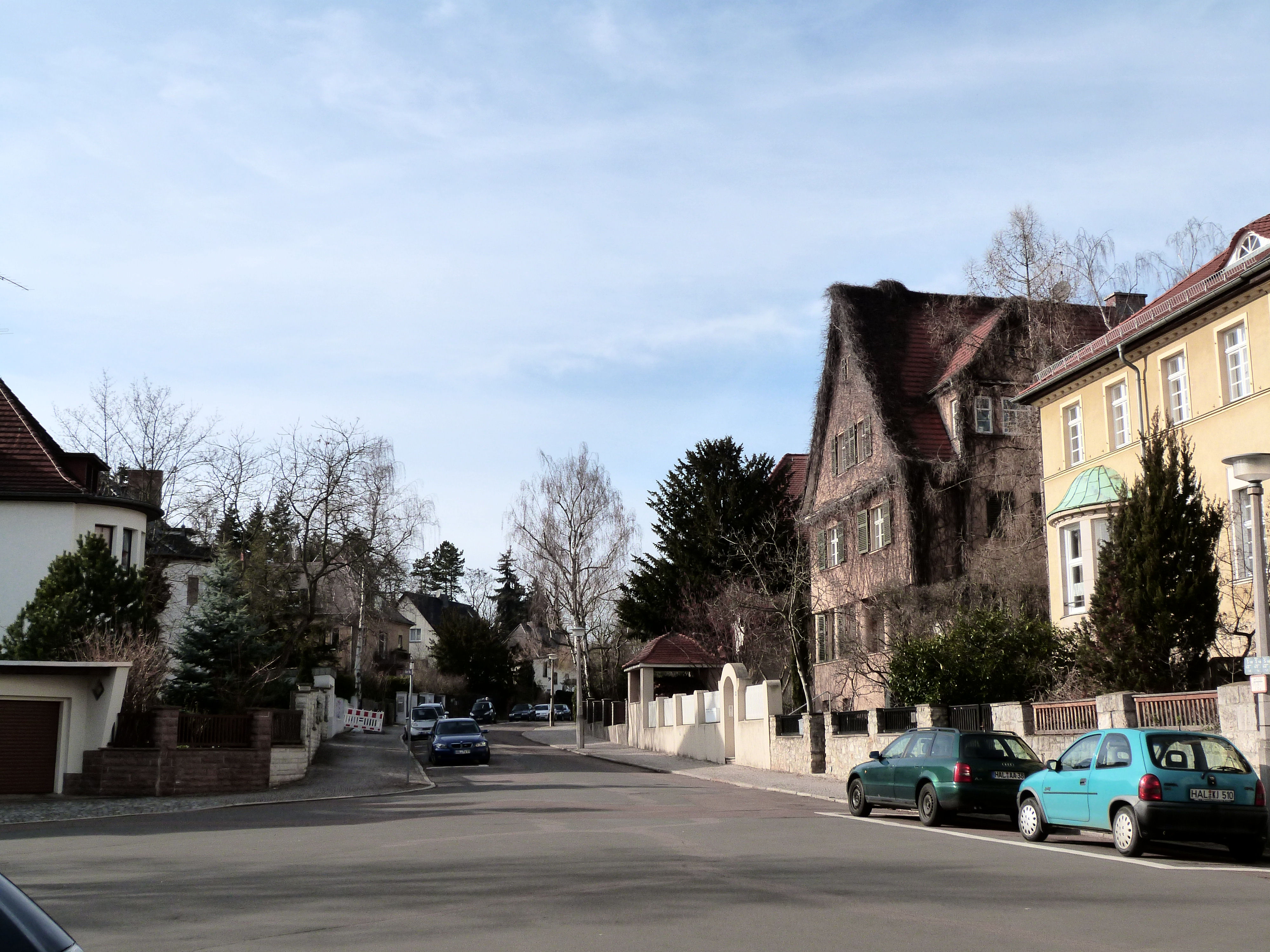 Street Hoher Weg in Halle (Saale), district Kröllwitz